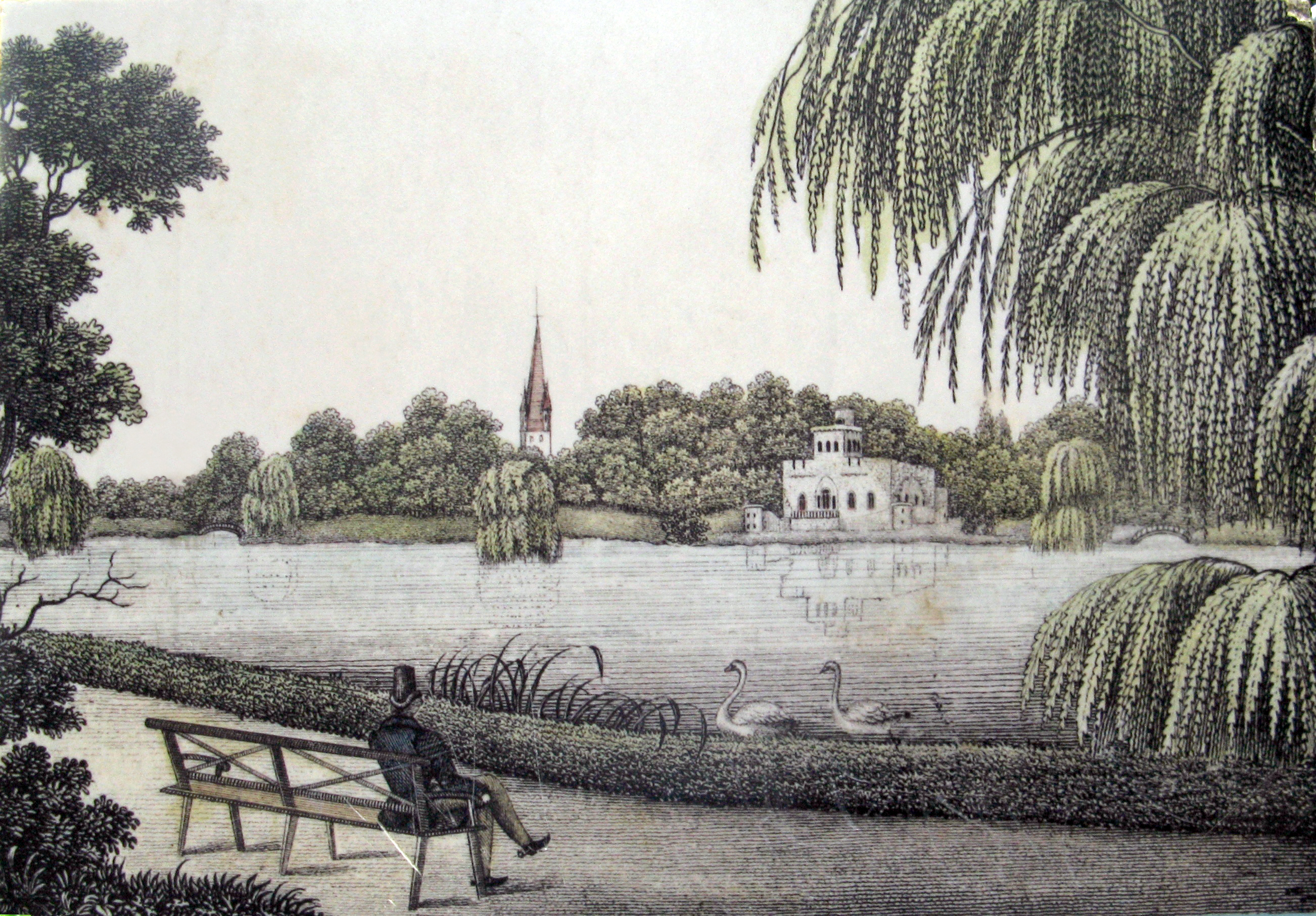 engraving of Mosburg, Wiesbaden